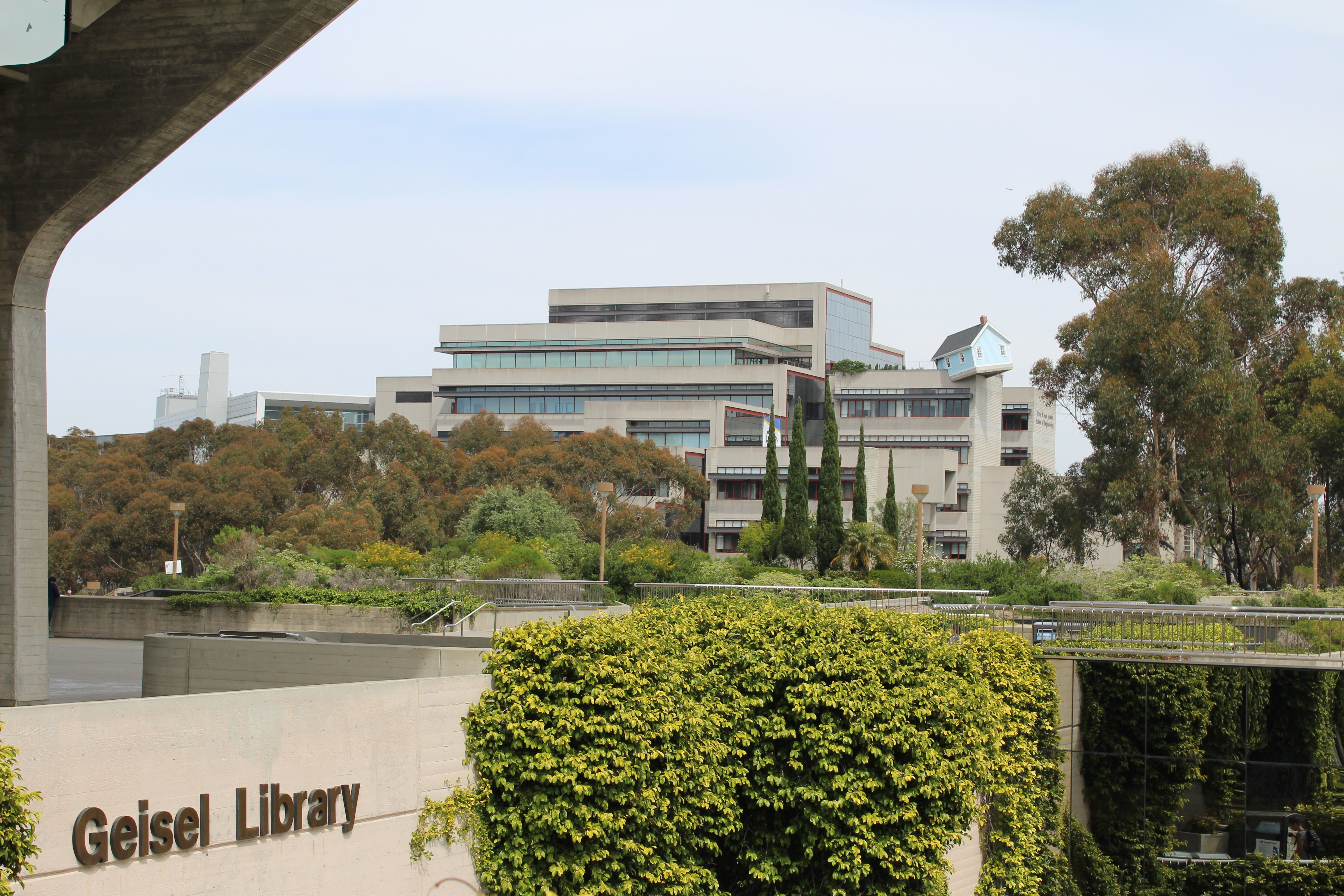 The Jacobs School of Engineering and Do Ho Suh's Fallen Star as seen looking east from the forum of Geisel Library.